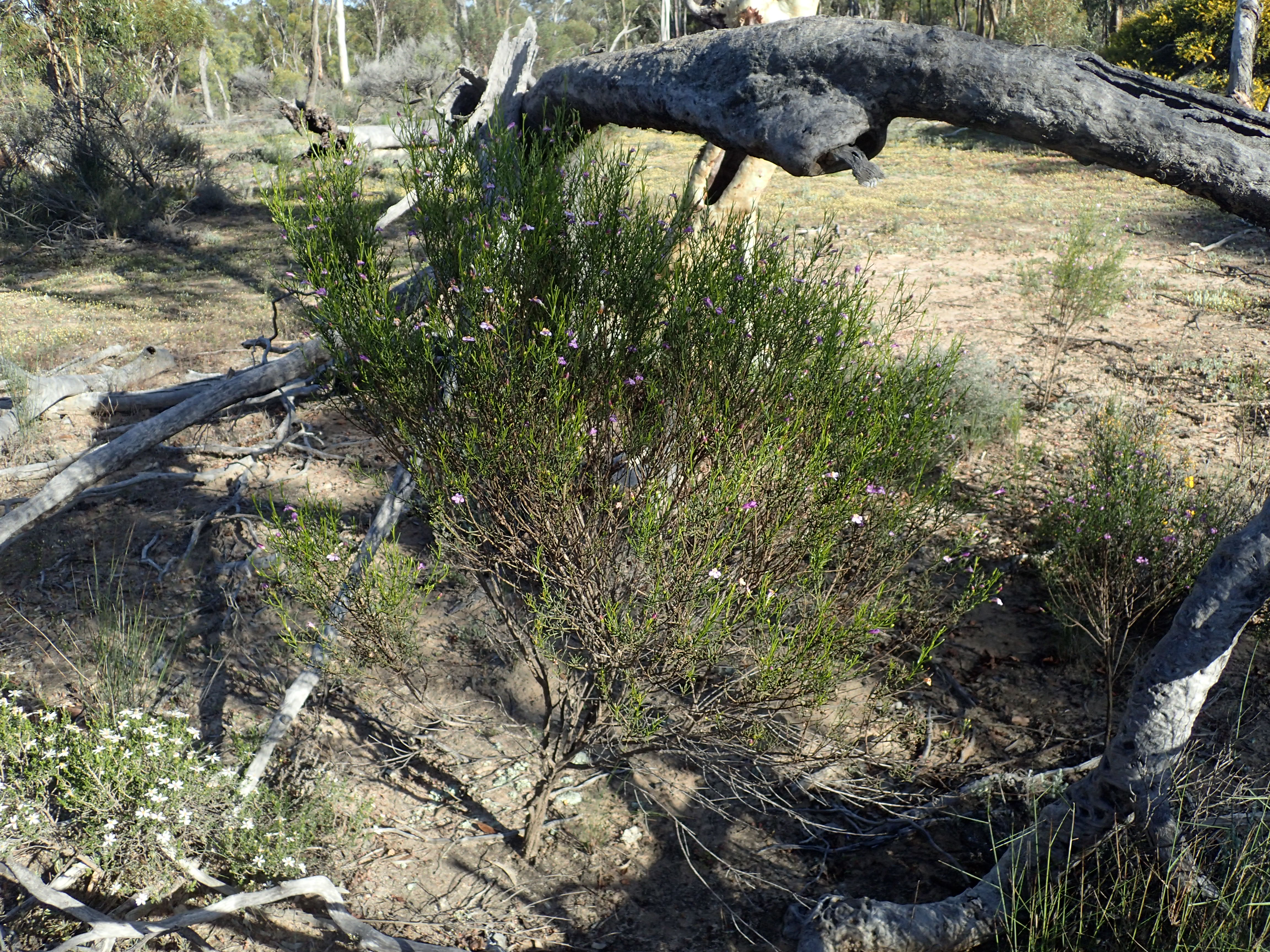 Eremophila drummondii growing in the Nembudding Nature Reserve